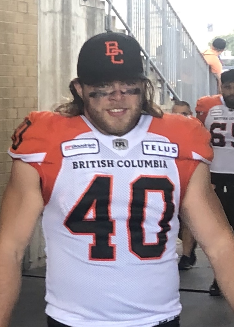 Tanner Doll, longsnapper for the BC Lions.